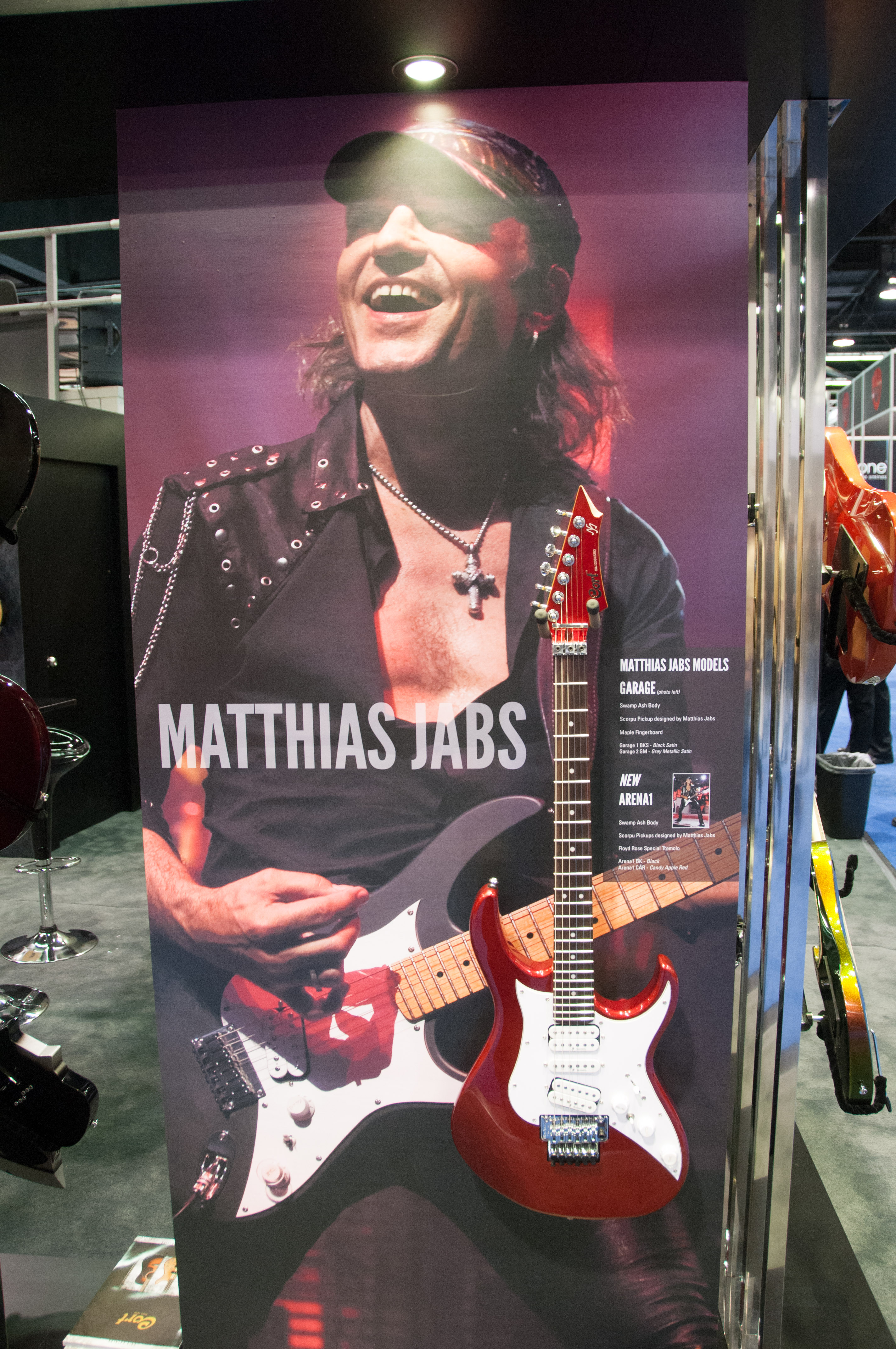 Cort Arena1 Matthias Jabs Signature (candy apple red) “Haven't seen Matthias in a while. I always thought he was an underrated player.”